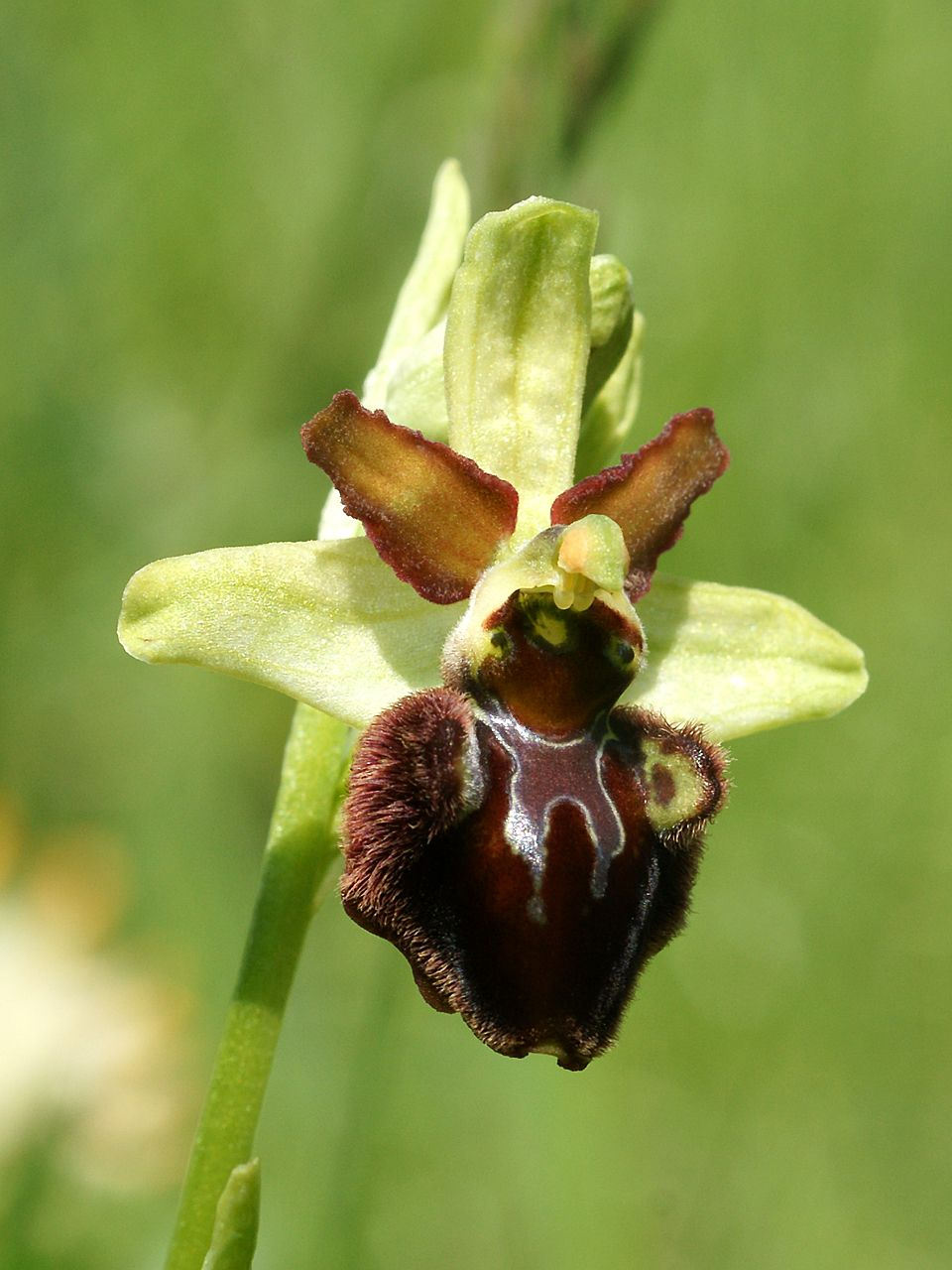 Ophrys sphegodes